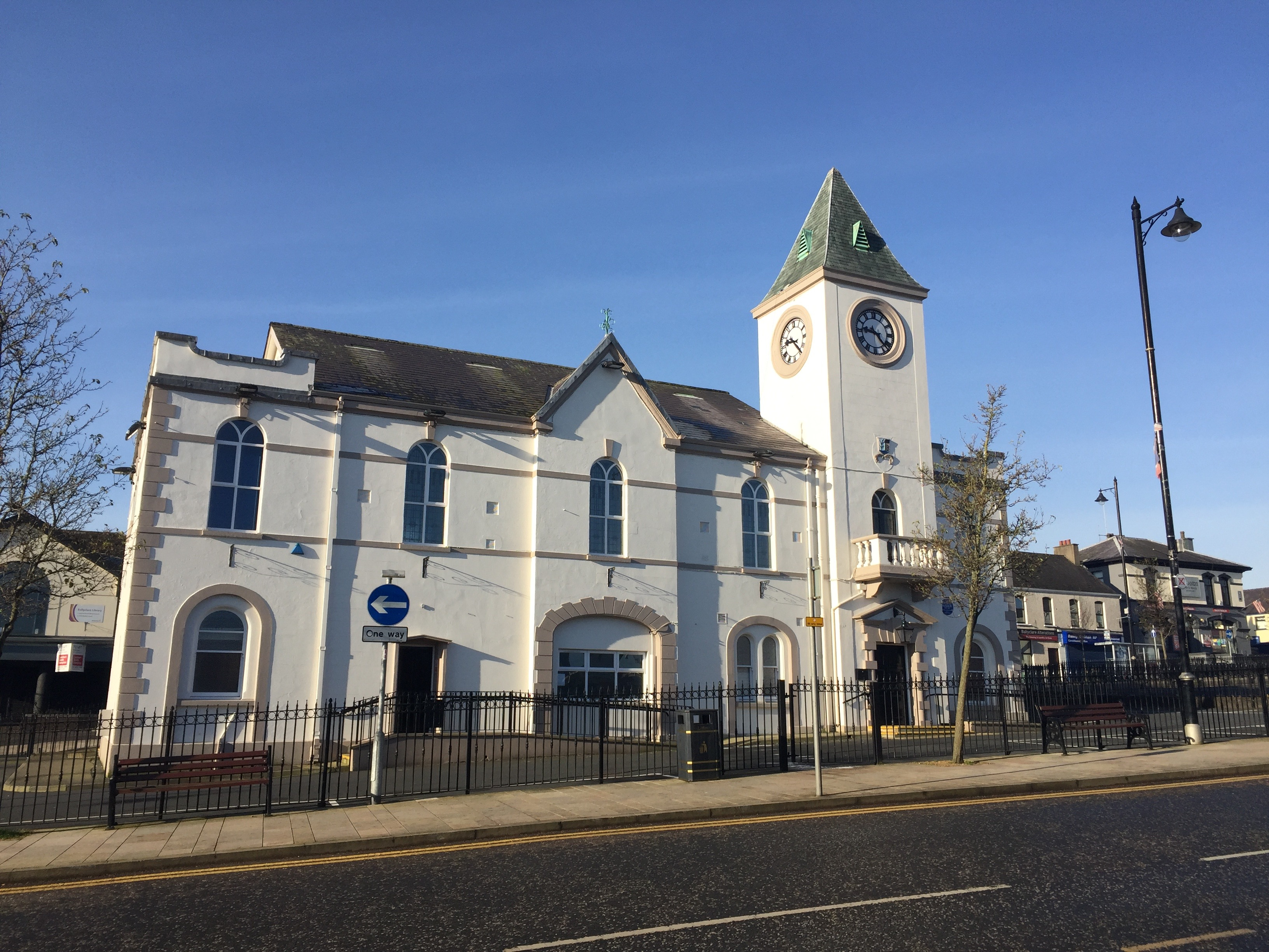 This image is the Town Hall in Ballyclare. The Town Hall sits in the middle of the square in the centre of town.